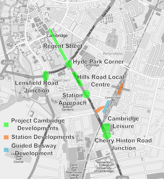 A map showing the areas to be developed by the £25 million Project Cambridge redevelopment scheme.